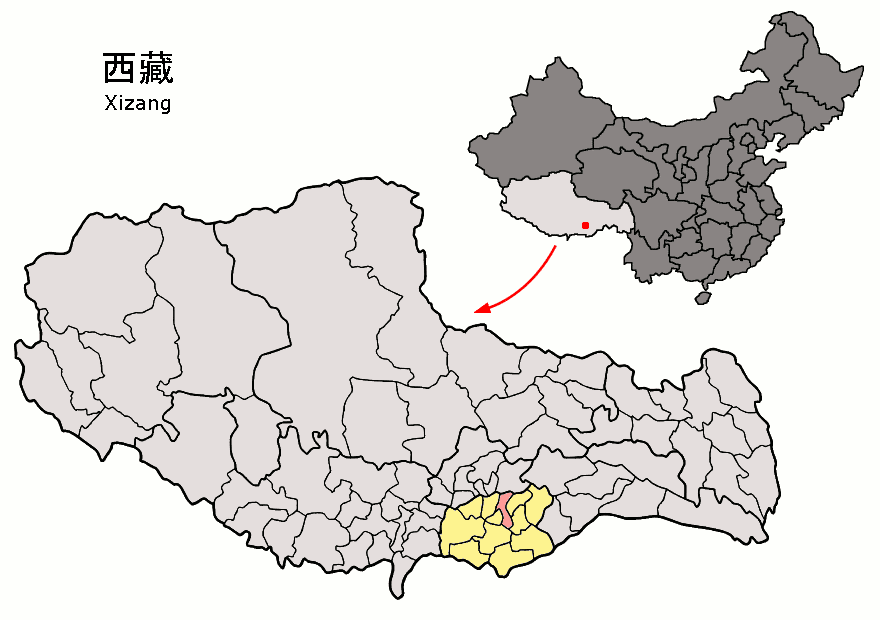 Location of Nêdong County (pink) and Shannan Prefecture (yellow) within Tibet (Xizang) autonomous region of China